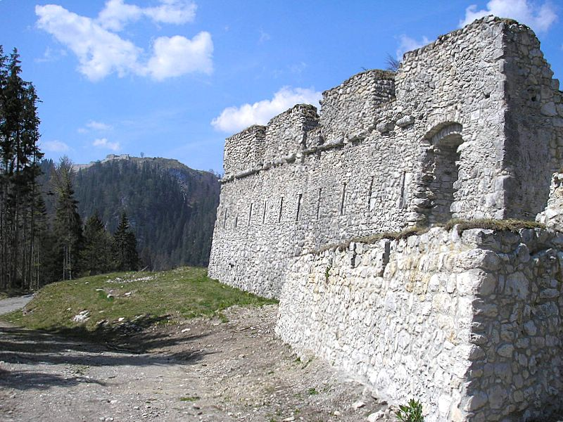 Fort Claudia (Hochschanz), Fortress Ehrenberg near Reutte (Tyrol, Austria). View from the south to Citadel Schlosskopf.